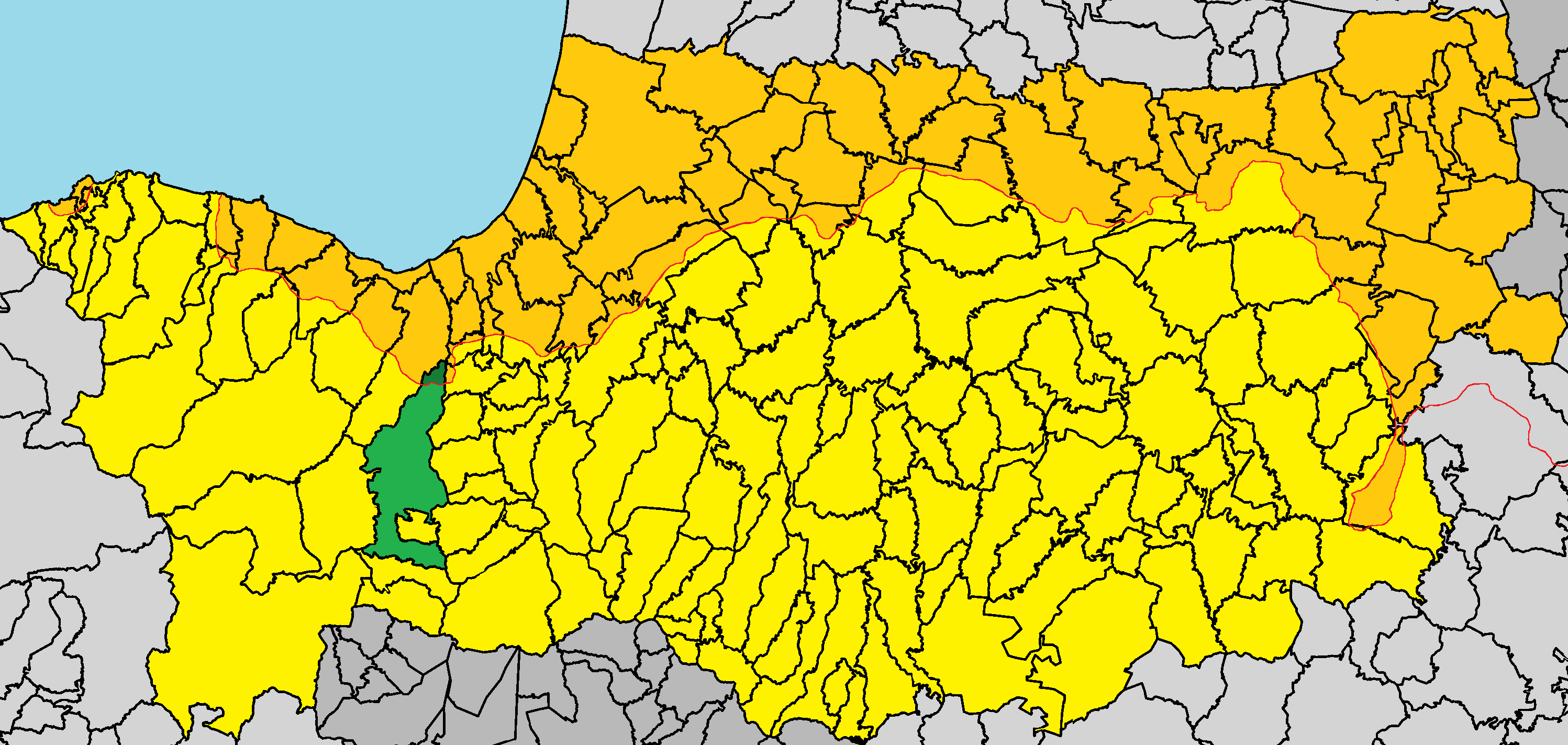 Kalopanagiotis in Nicosia District.